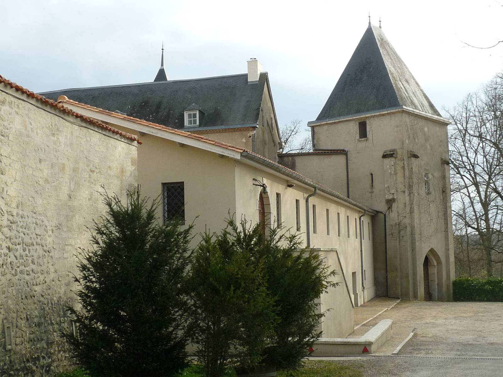 abbey of Maumont, Juignac, Charente, SW France